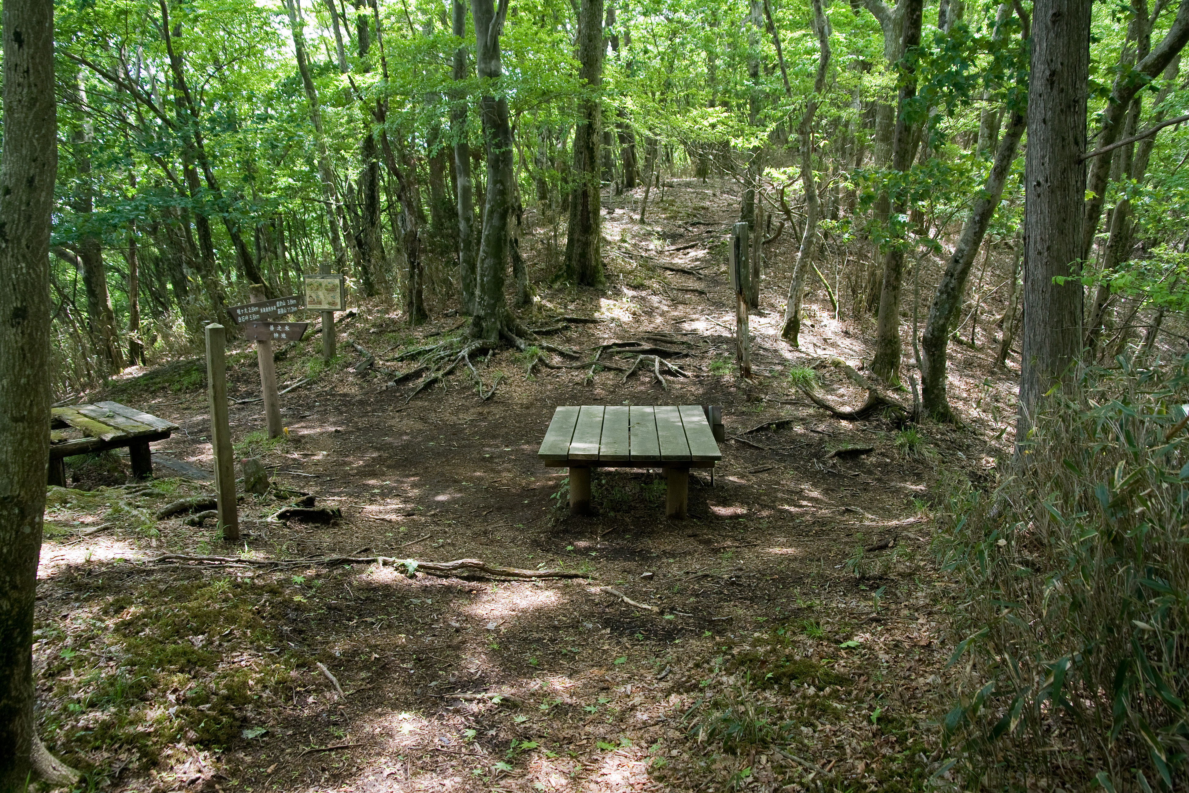 Jogao Pass in Mts.Tanzawa, Kanagawa and Yamanashi Pref, Japan.